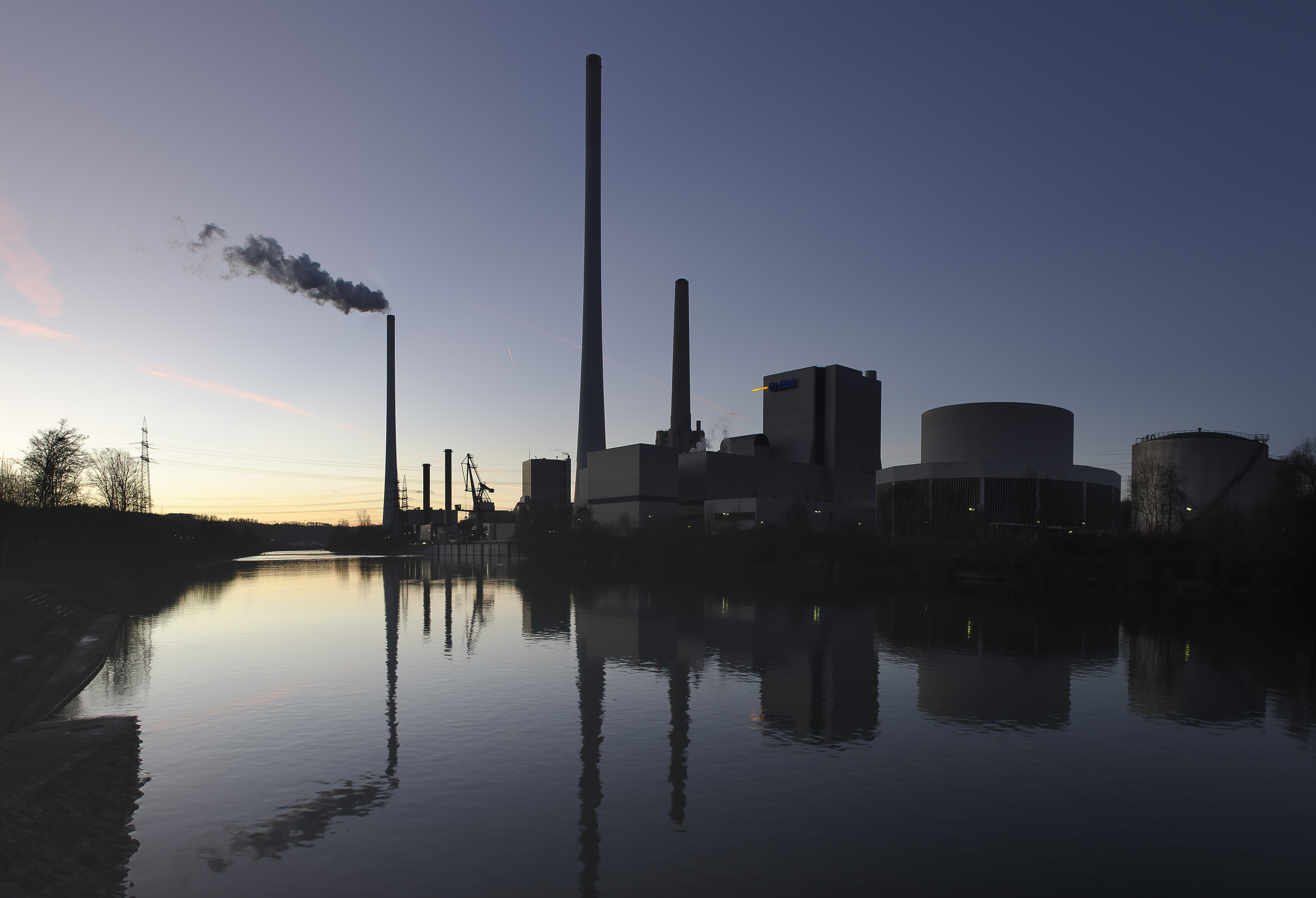 Altbach Power Plant, Germany.